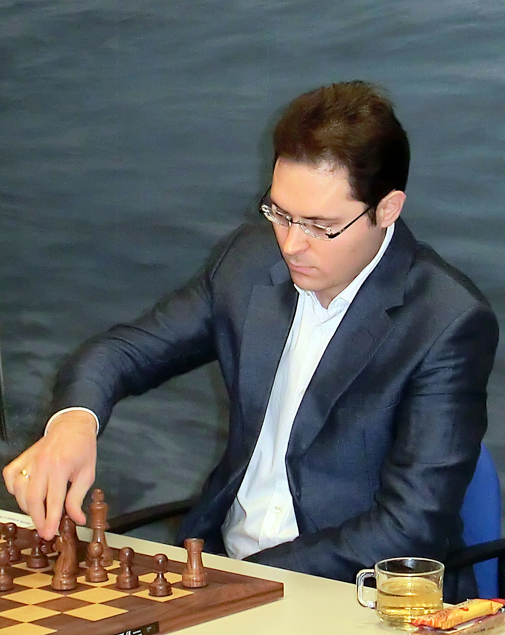 Péter Lékó, chess grandmaster from Hungary